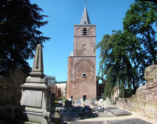 ruin church of warmond